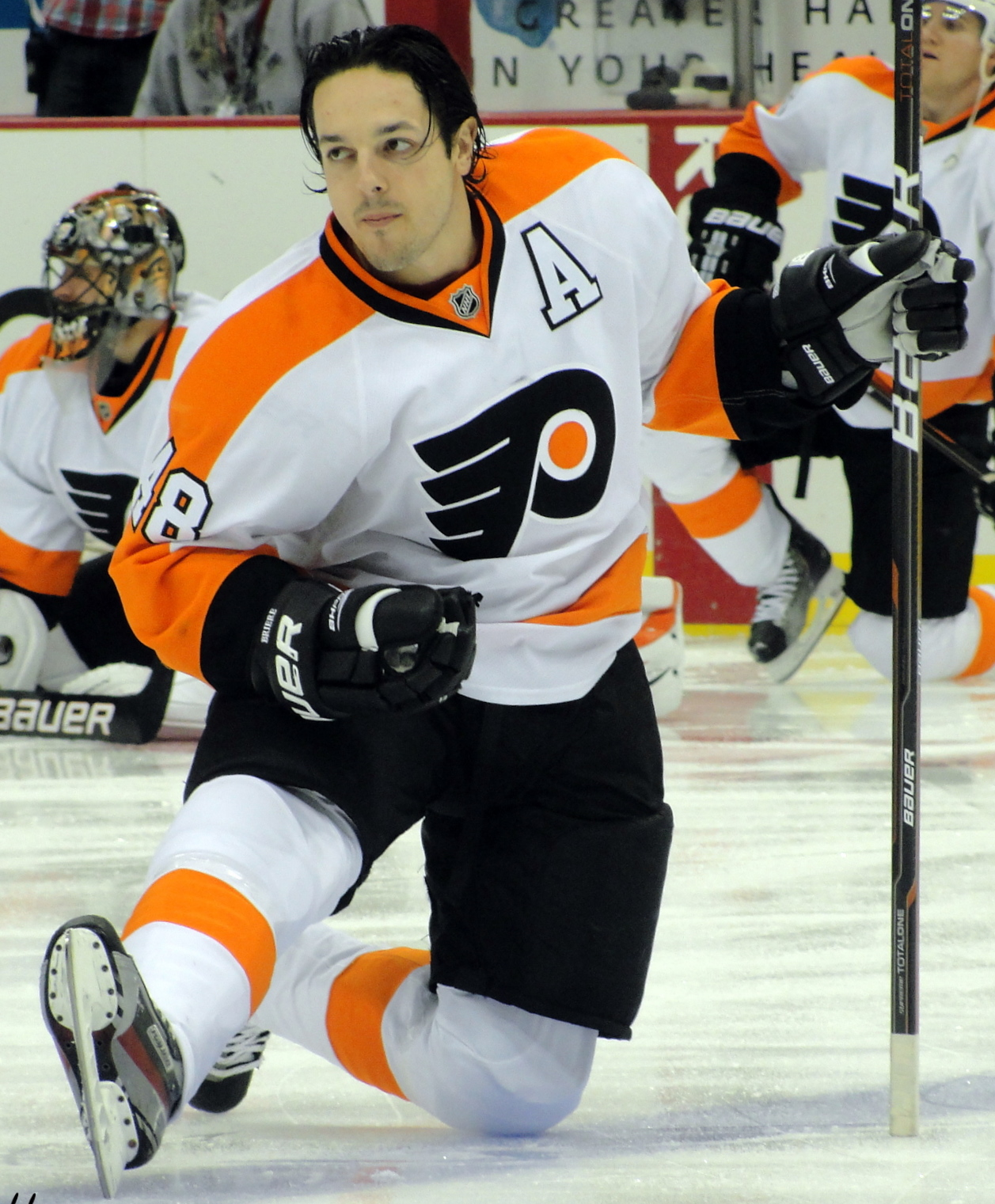 Daniel Brière of the Philadelphia Flyers warms up before a December 29, 2011 game against the Pittsburgh Penguins at Consol Energy Center in Pittsburgh, PA.